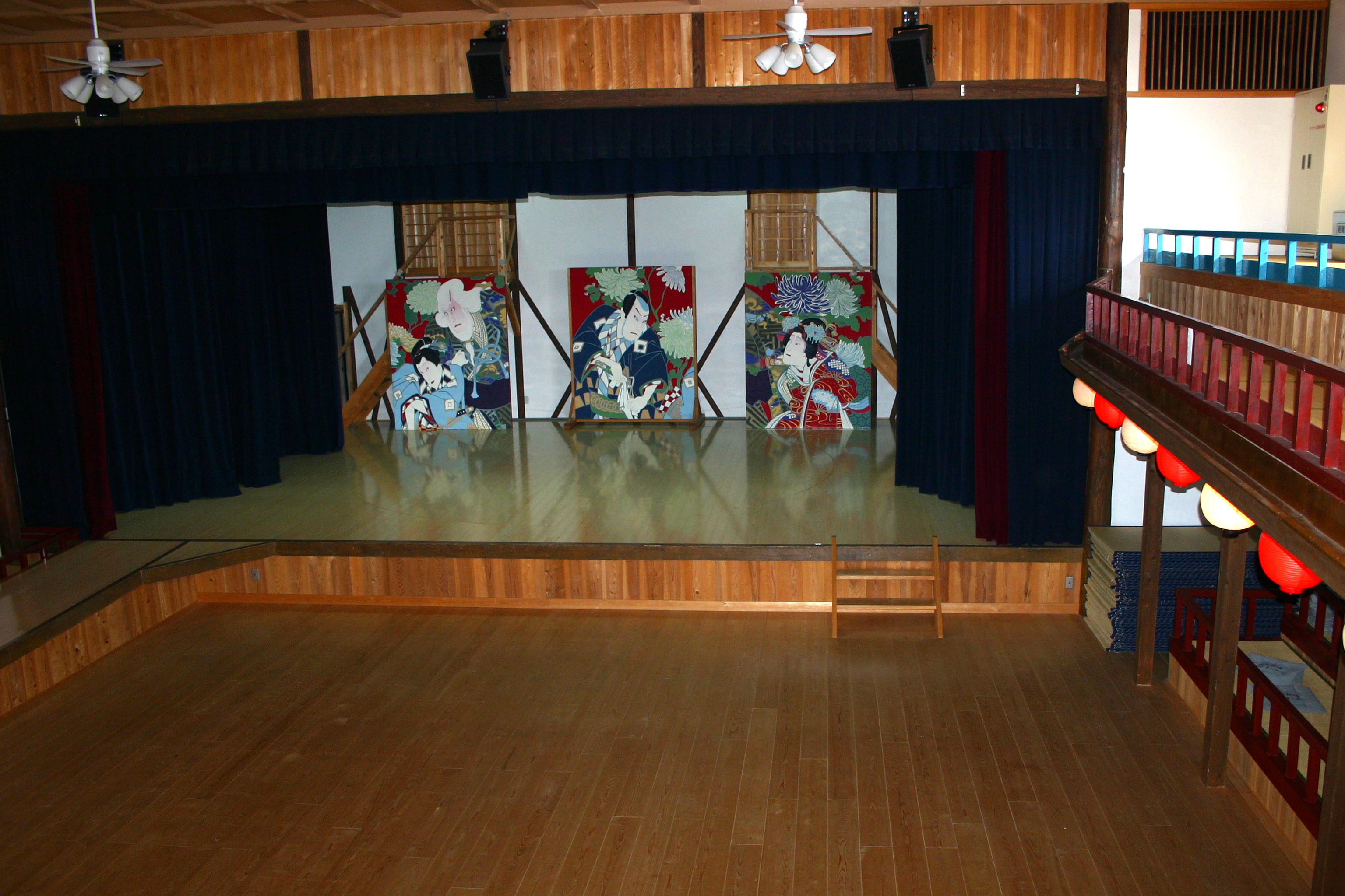 View from the Omuko at Wakimachi Theater Odeonza in Mima-shi, Tokushima-ken